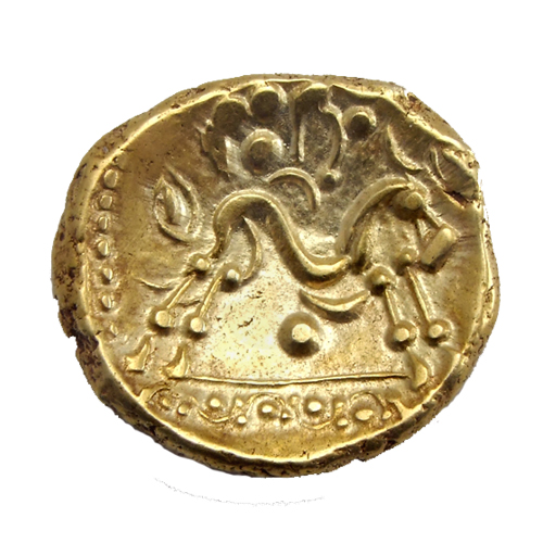 Celtic Gaul, gold stater from the Ambiani tribe with Celticised horse